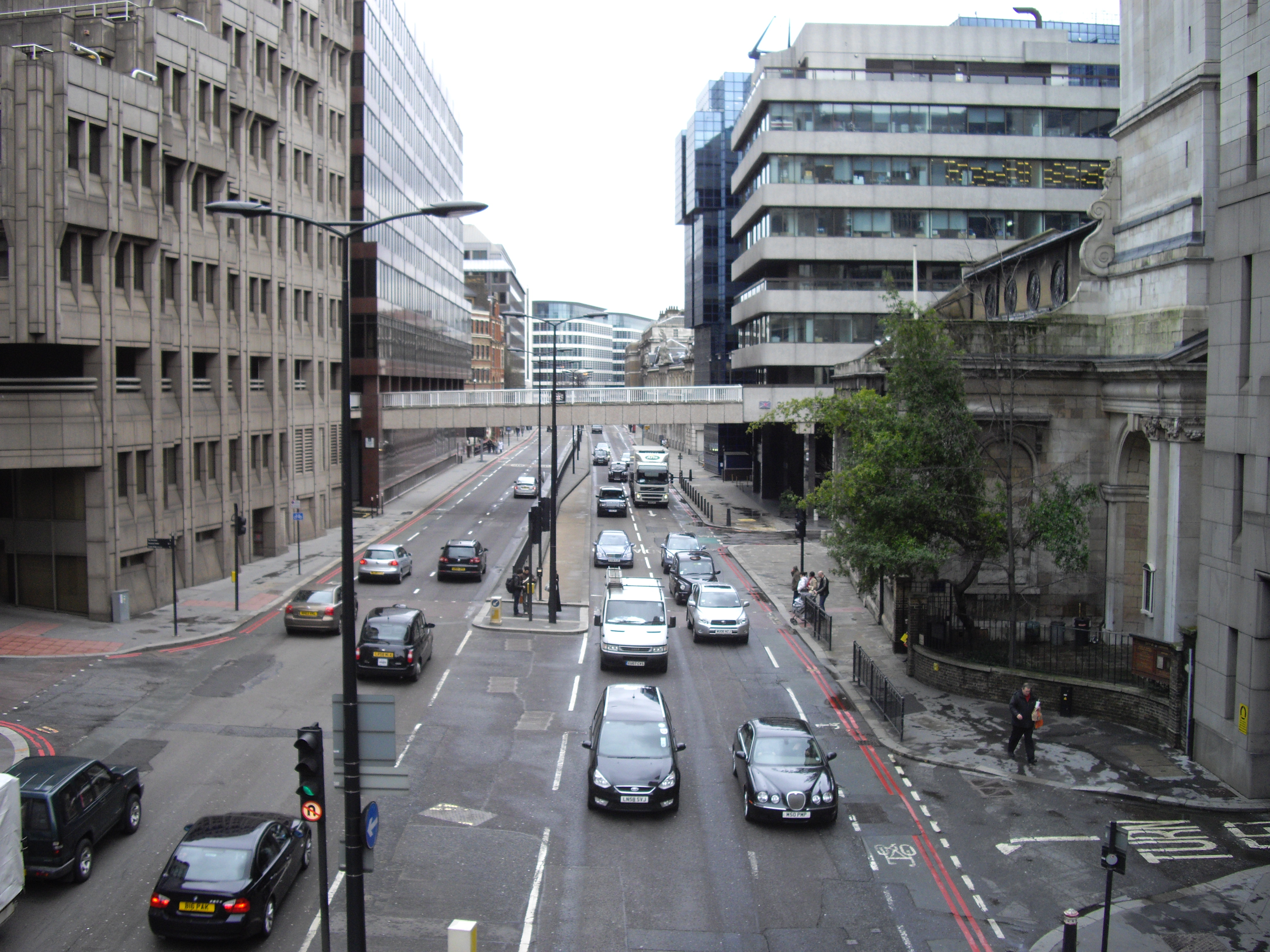 Traffic on Upper Thames Street London Picture taken from footbridge leading to Peters Hill